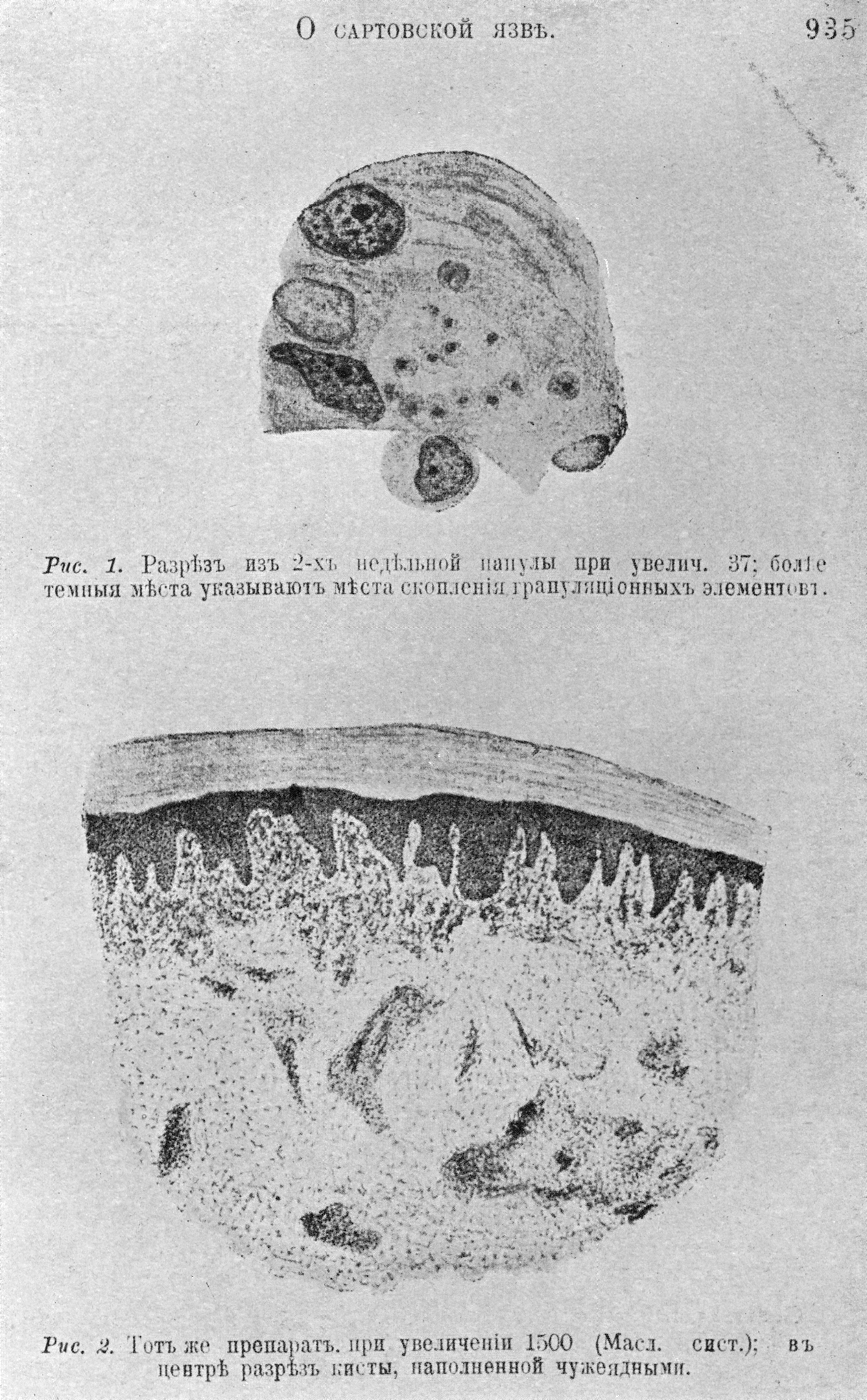 Facsimile of the illustration on page 935 in Borovsky’s memoir in Voenno-meditsinsky zhurnal, Part CXCV, Book 11, November 1898.